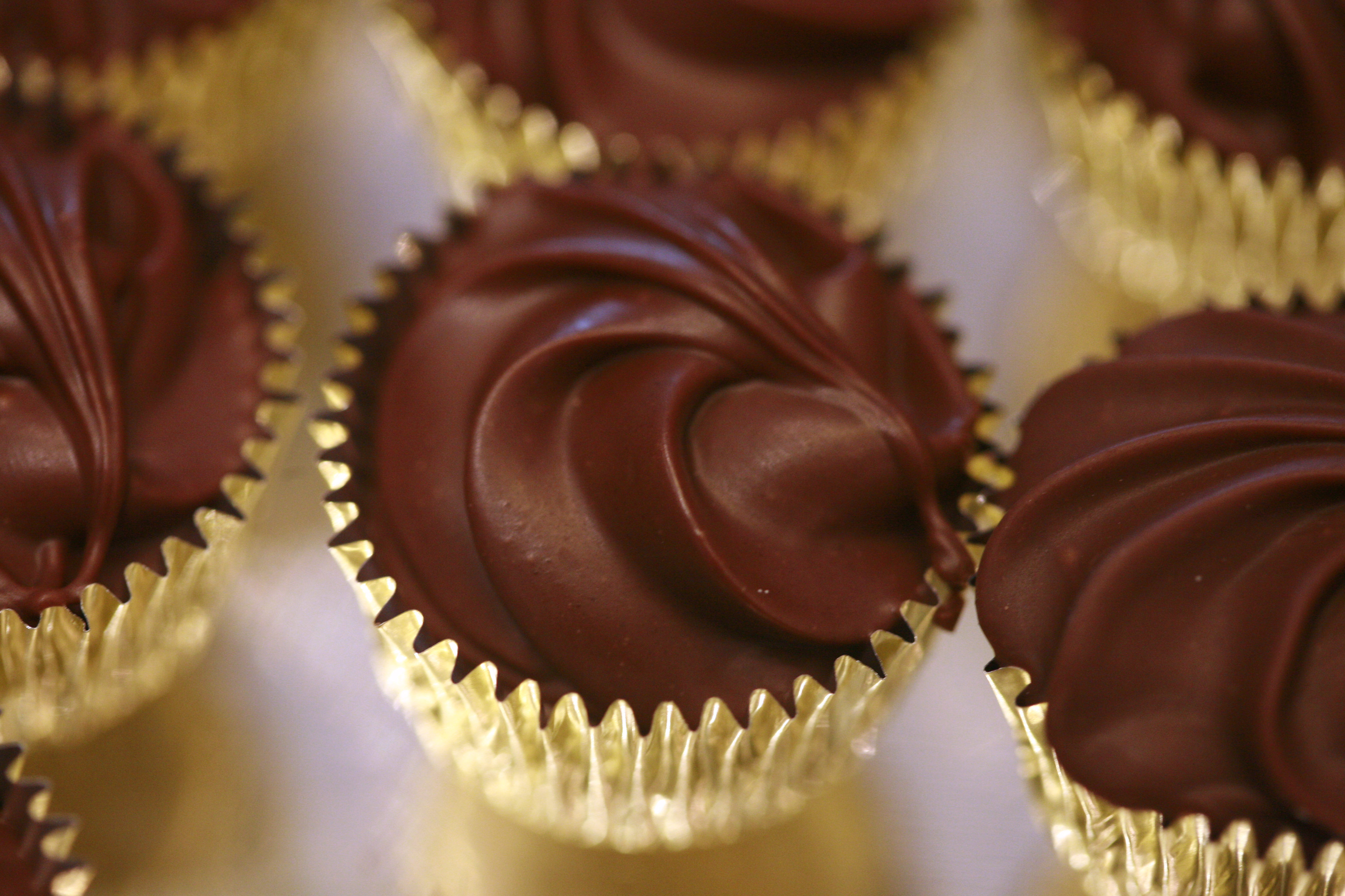 Chocolate from Mary, in Bruxelles. Photographed with the kind autorisation of the staff.